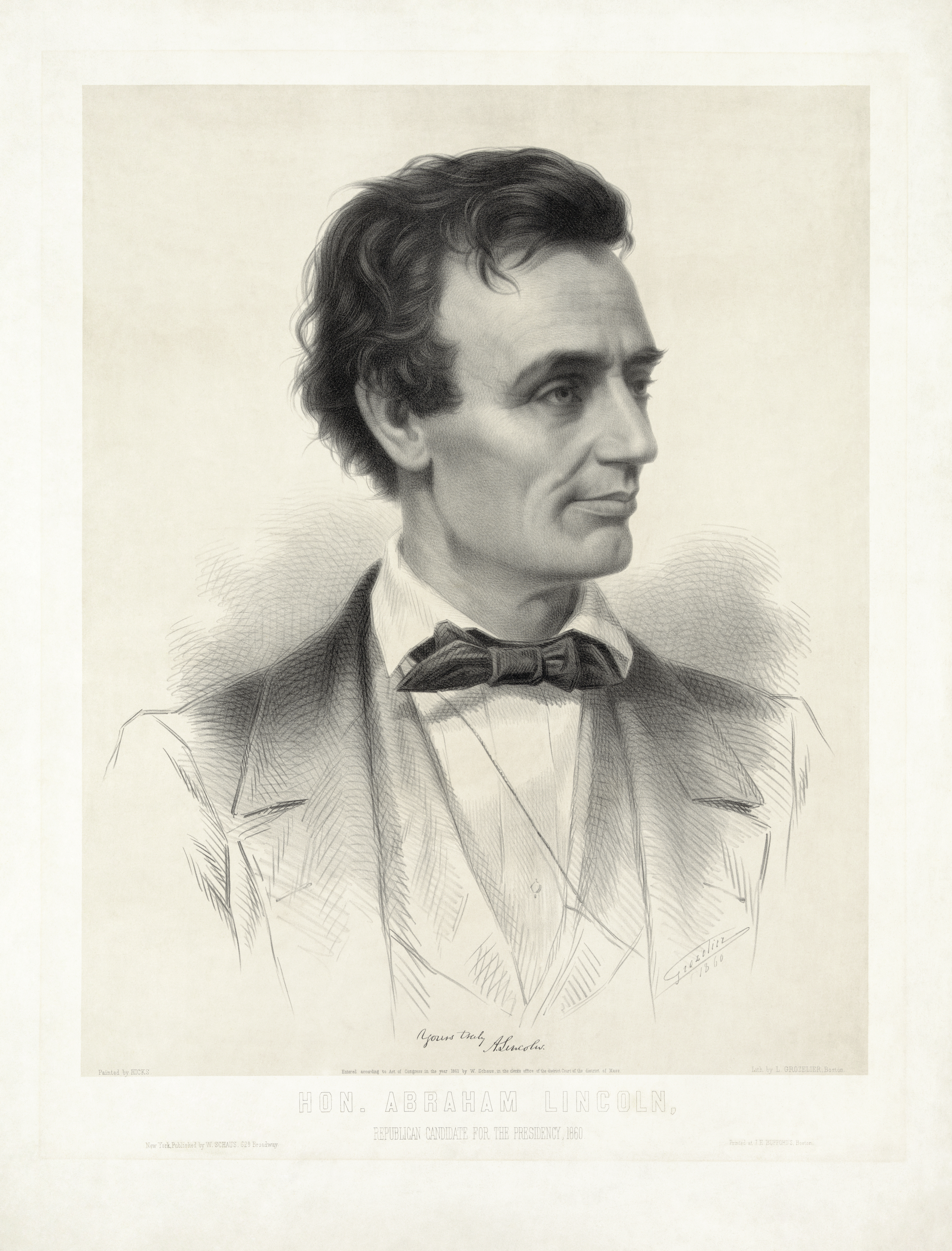 "Hon. Abraham Lincoln, Republican candidate for the presidency, 1860" - Lithograph by Leopold Grozelier, et al, showing the young Abraham Lincoln, before he grew his iconic beard. According to the Library of Congress, "Thomas Hicks painted a portrait of Lincoln at his office in Springfield specifically for this lithograph." This painting is in the collections of the Chicago Historical Society.